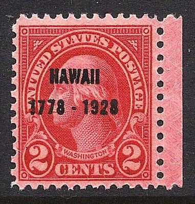 US Postage stamp, red, overprinted with Hawaii and sesquentenial date